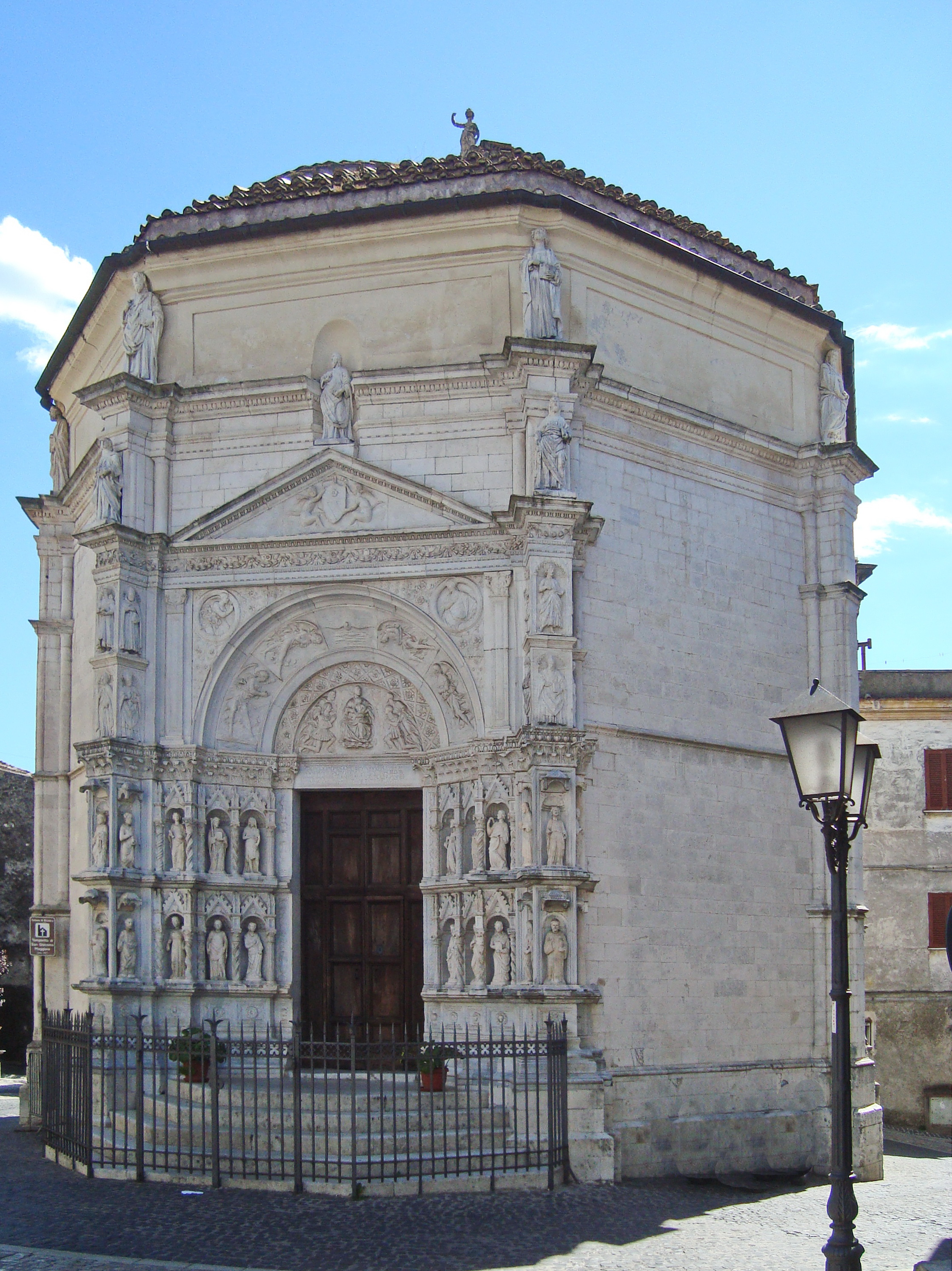 The church San Giacomo Maggiore in Vicovaro. 15th century.